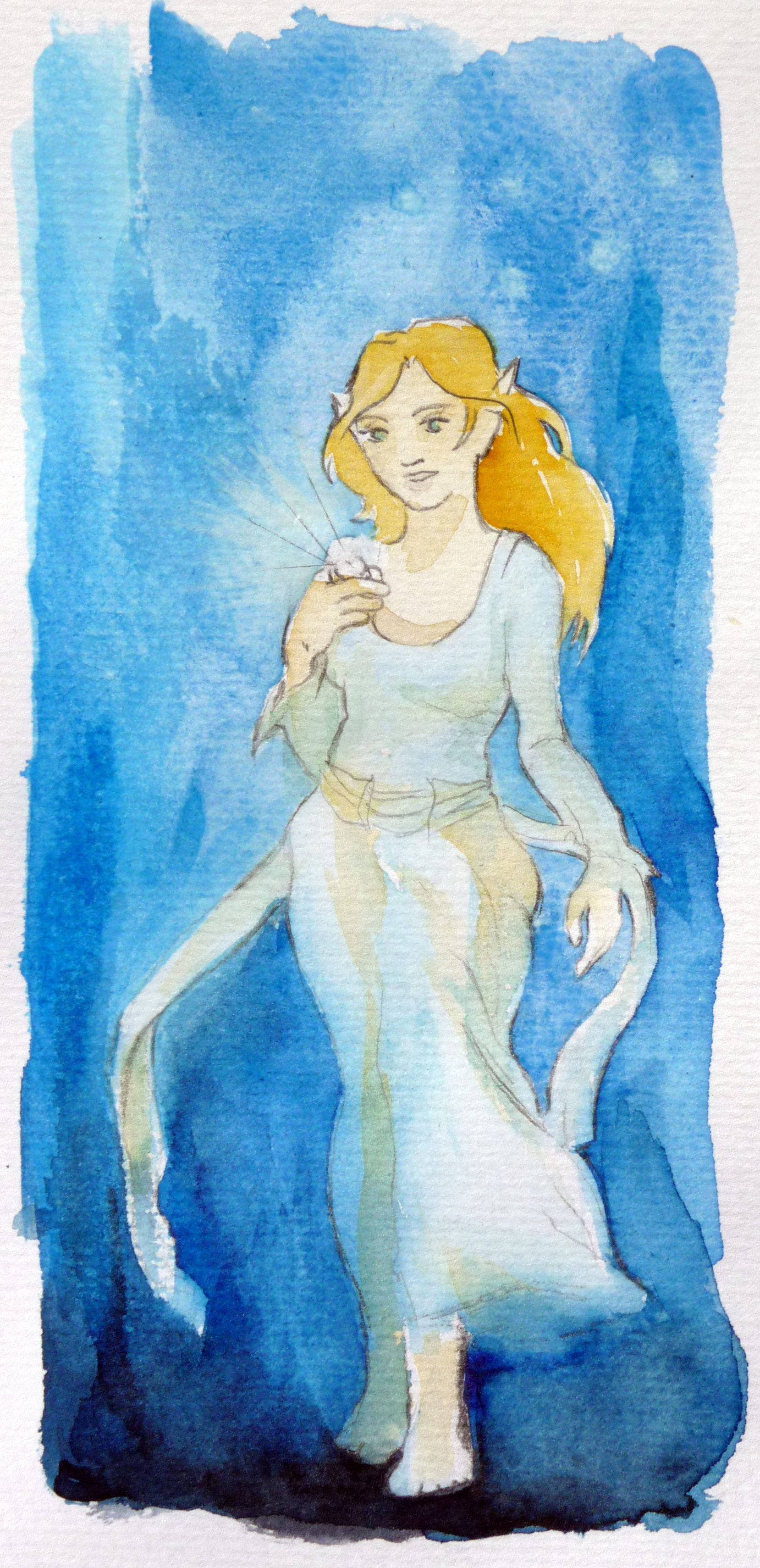 Galadriel